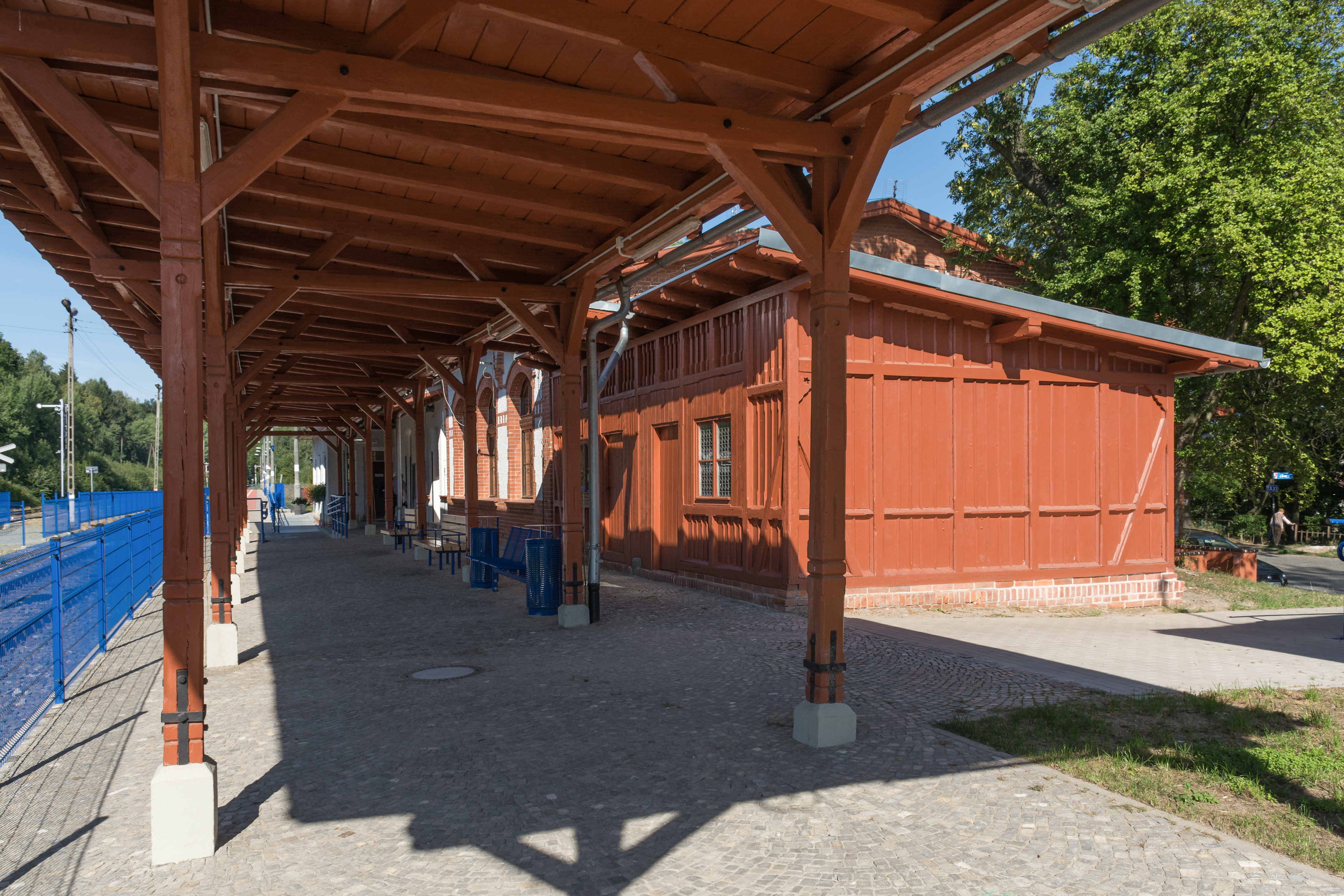 Polanica-Zdrój train station